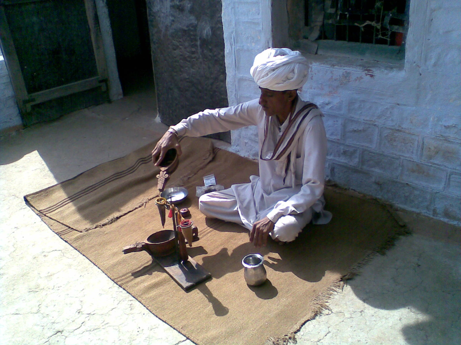 Villager making opium in wooden khada